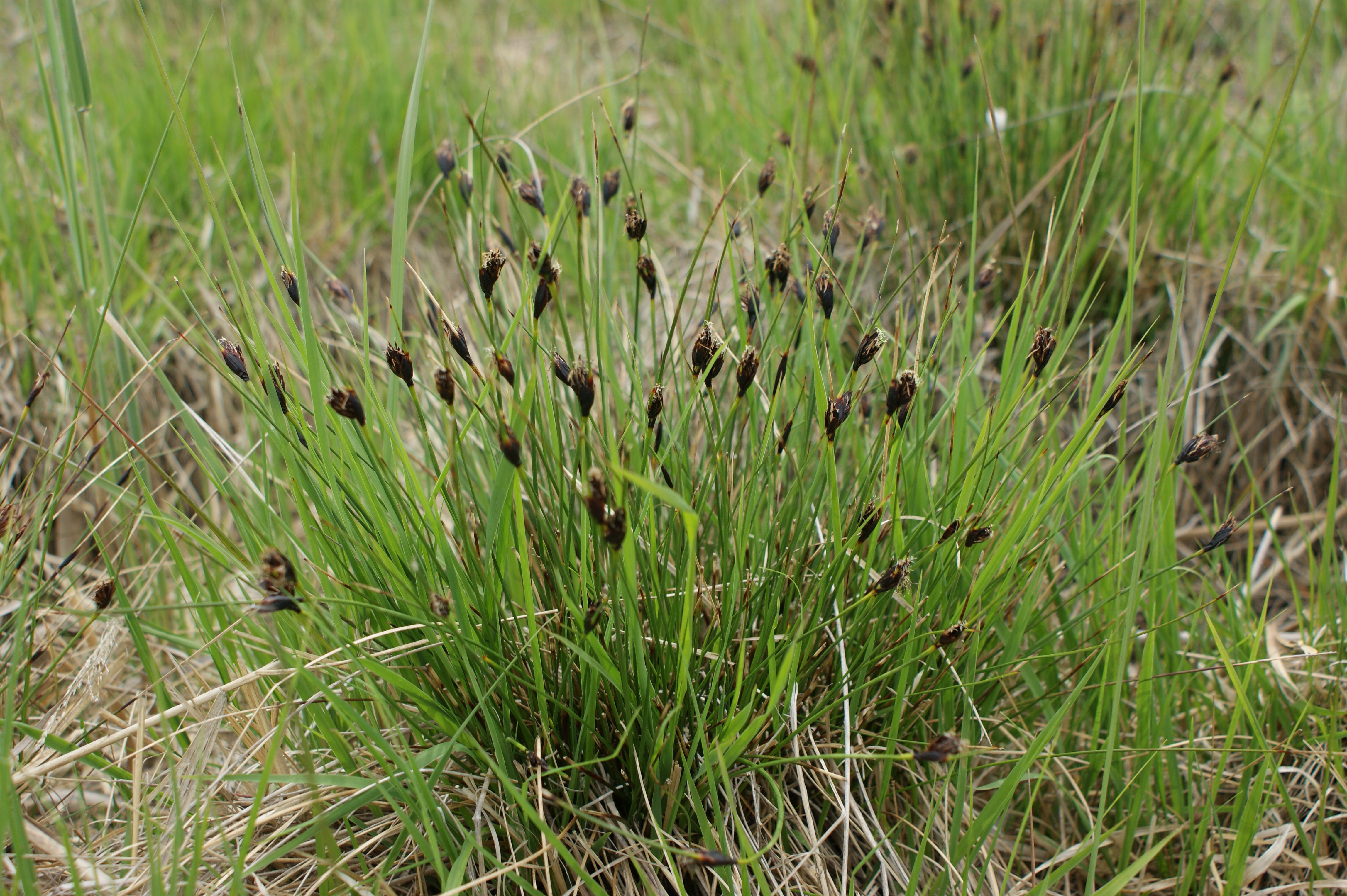 Schoenus nigricans, habitat. On Miedwie lake (NW Poland)